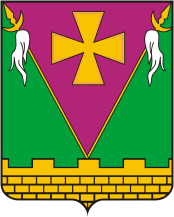 Yuznokubanskoe (Krasnodar krai), coat of arms